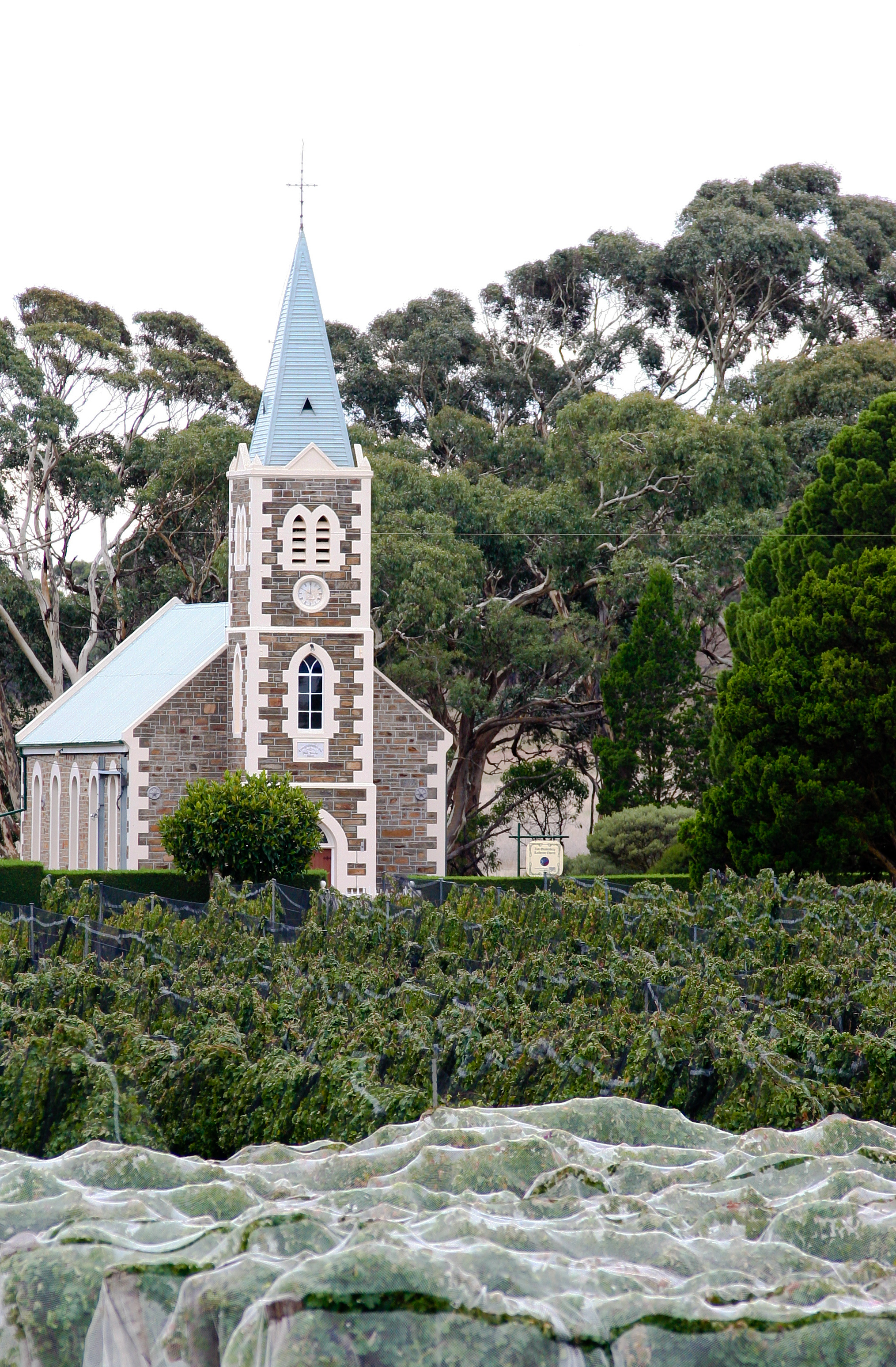 A picture of the Gnadenberg Church and the Hill of Grace wineyard in Eden Valley Australia.